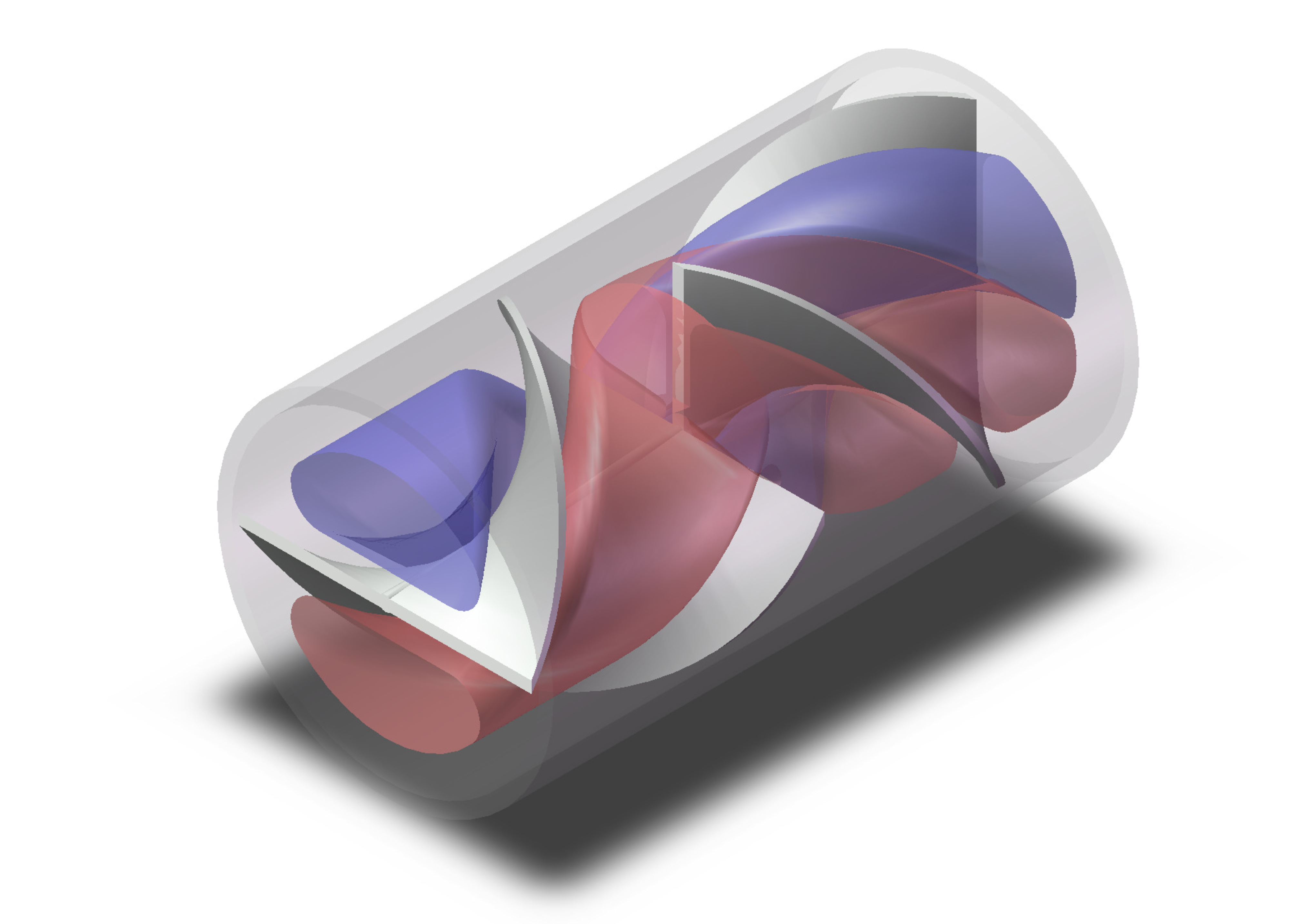 flow inside a static mixer